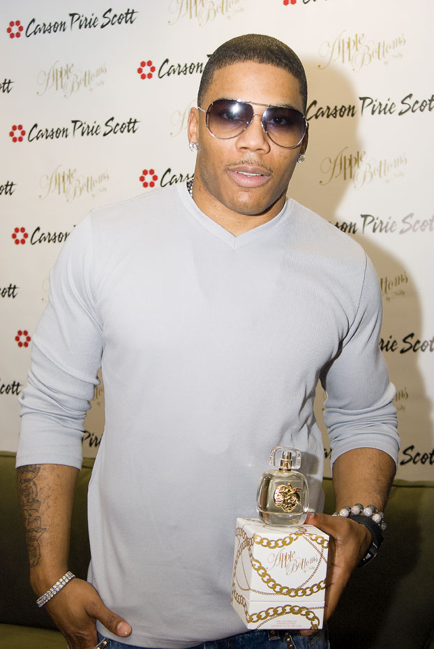 Nelly Promotes Apple Bottom fragrance at | at North Riverside Mall, North Riverside, IL, USA, on June 5, 2010. Photo by Adam Bielawski